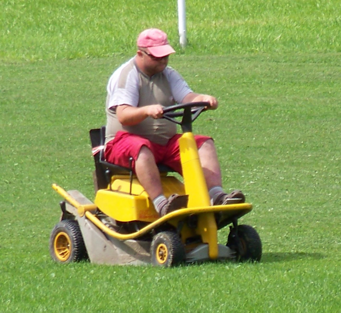 Svatá, Beroun District, Central Bohemian Region, the Czech Republic. Lawn maintenance on a playing field.